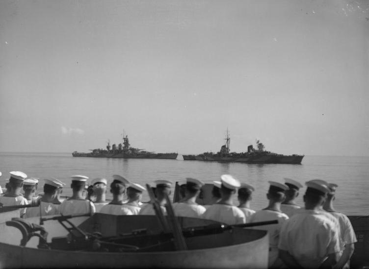 IWM caption : After making a rendezvous off the North African coast, an Italian cruiser and a Littorio class battleship steam slowly past the British escorting ships towards Malta to surrender, all together there were two battleships, five cruisers and four destroyers. Sailors of HMS WARSPITE are in the foreground. They were also escorted by units of the British destroyer flotillas as well as the battleships VALIANT and WARSPITE (from which this photograph was taken).